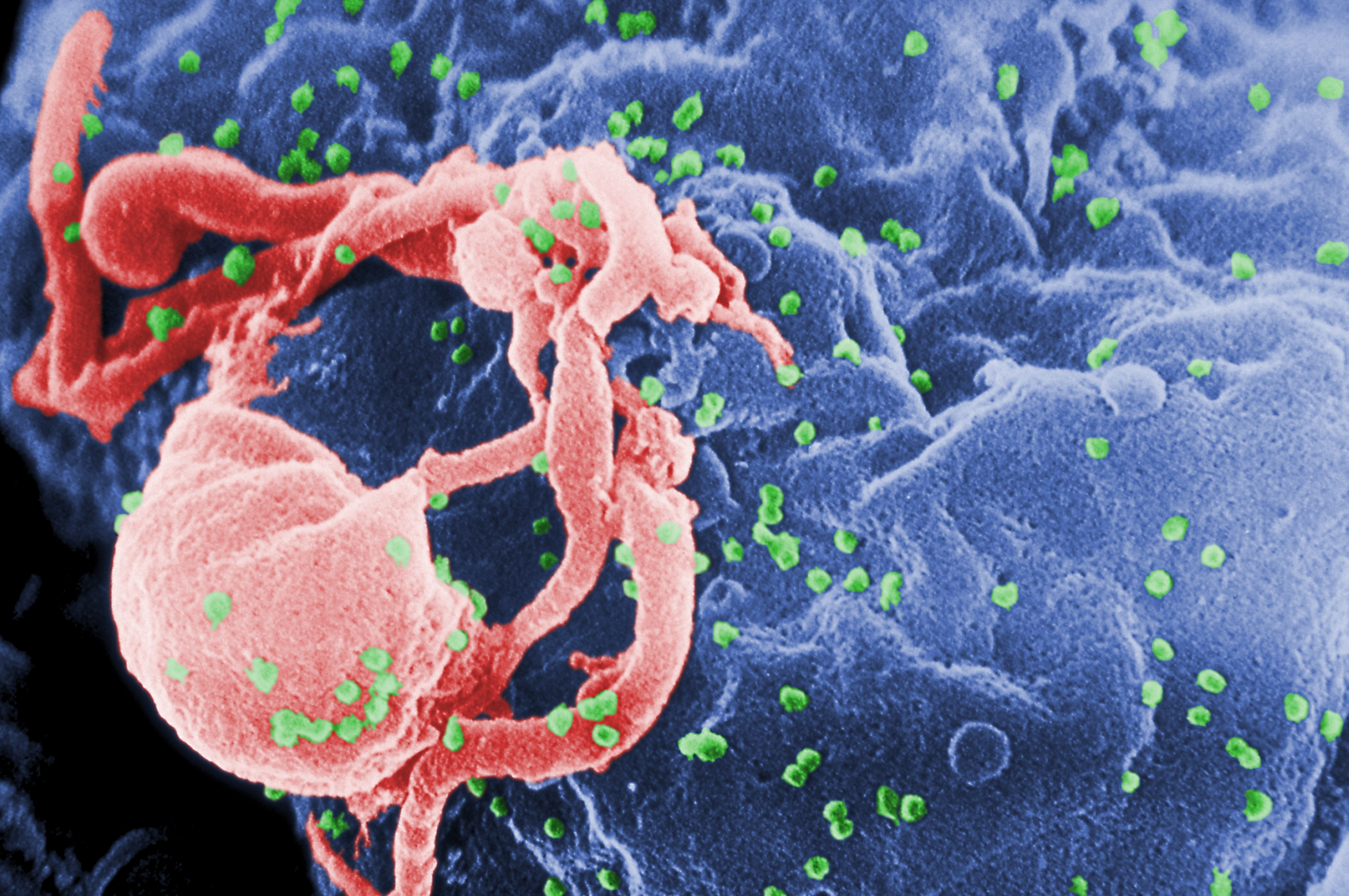 Scanning electron micrograph of HIV-1 budding (in green) from cultured lymphocyte. This image has been colored to highlight important features; see PHIL 1197 for original black and white view of this image. Multiple round bumps on cell surface represent sites of assembly and budding of virions.